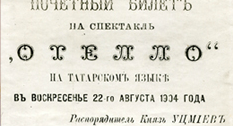 Ticket for "Otello" in Azeri. Shusha. Organizaer Knyaz Utsmiyev.